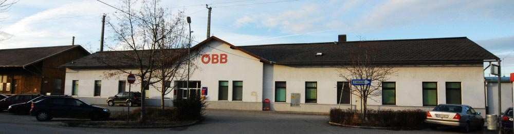 Ebenfurth train station in Lower Austria